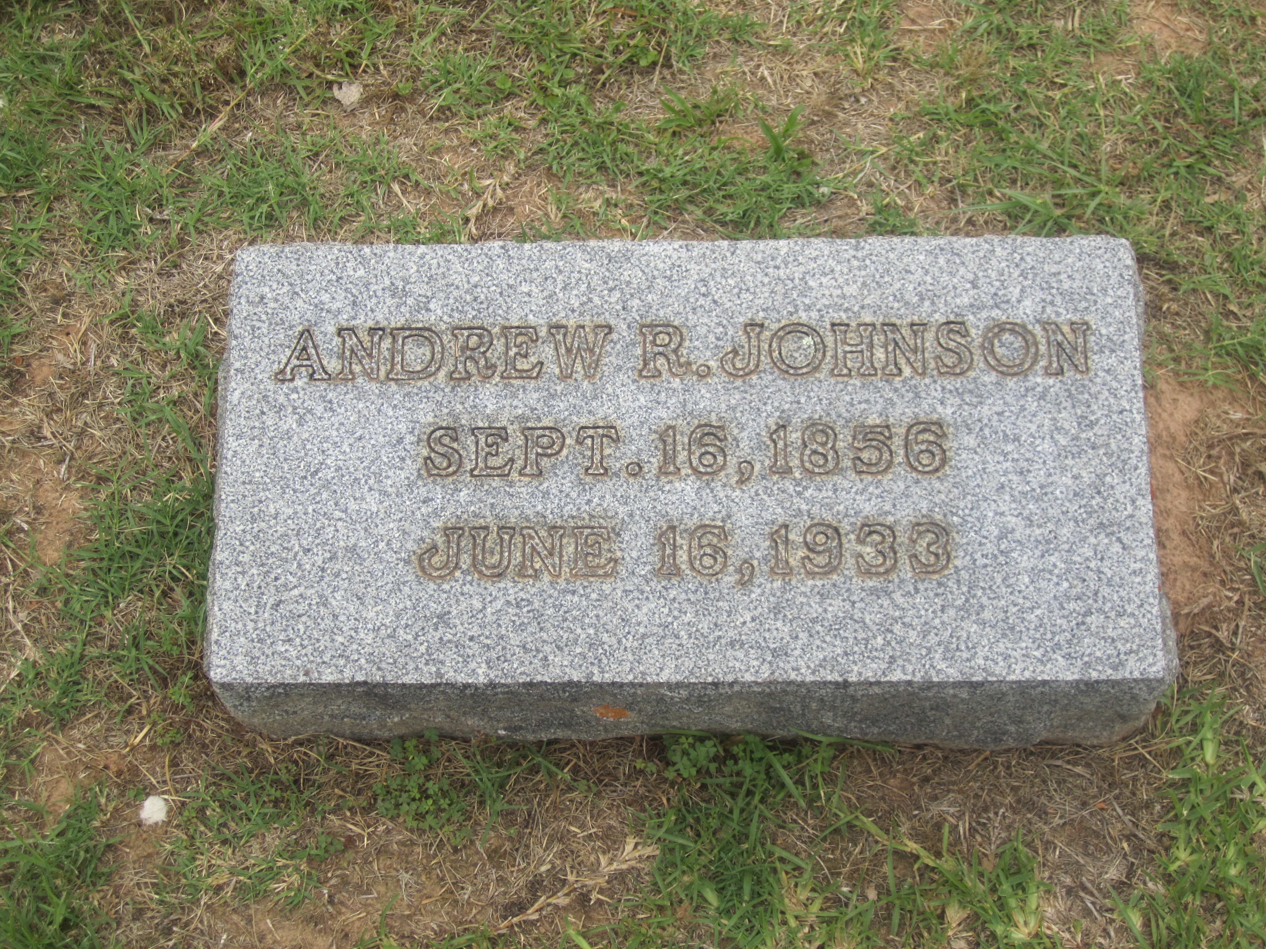 I took photo with Canon camera of grave of former State Senator Andrew R. Johnson in Coushatta, LA.